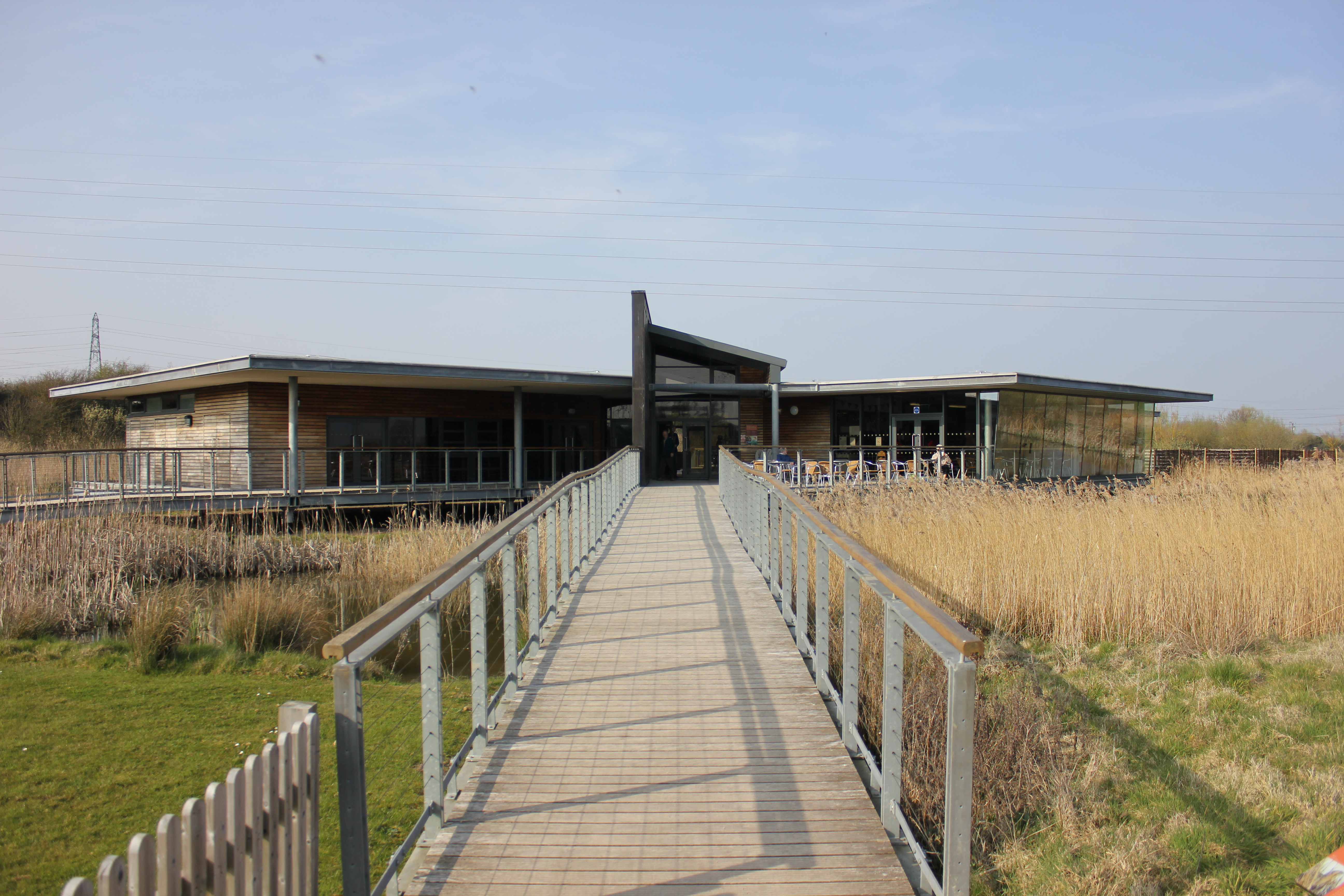 The Visitors Centre at Newport Wetlands Centre, Newport, Wales